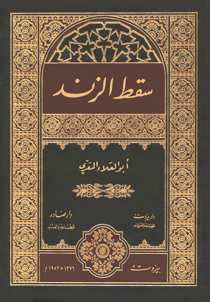 Saqt al-Zand al-Maarri